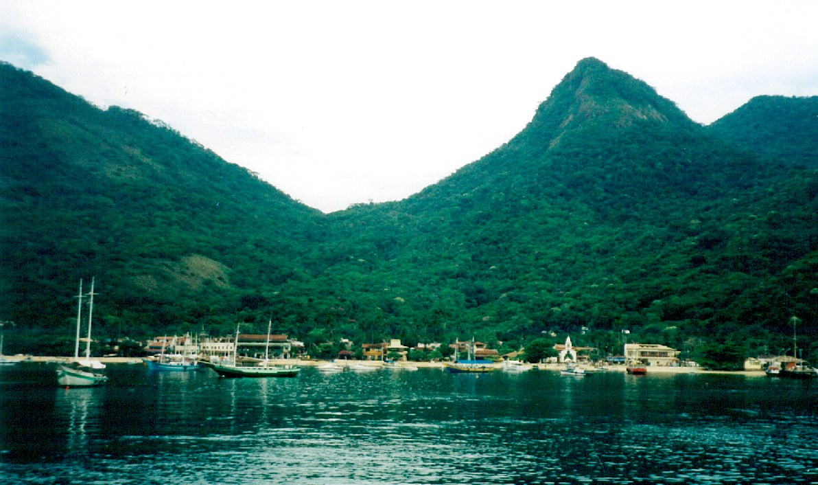 View of Abraao and Ilha Grande, Rio de Janeiro State, Brazil